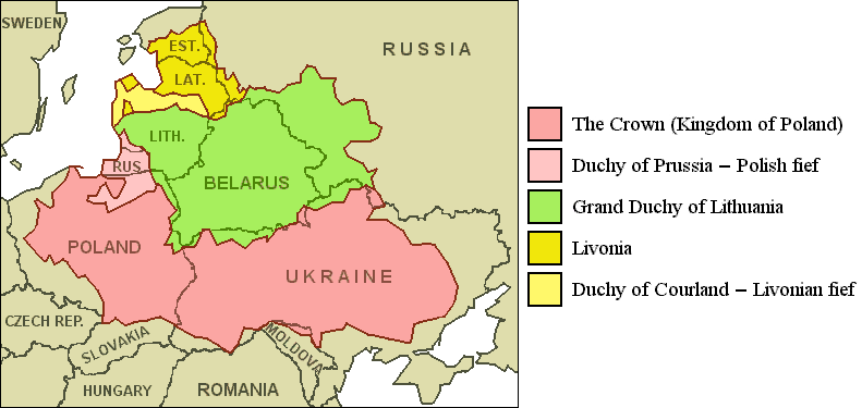 Polish-Lithuanian Commonwealth (1619) compared with today's borders.